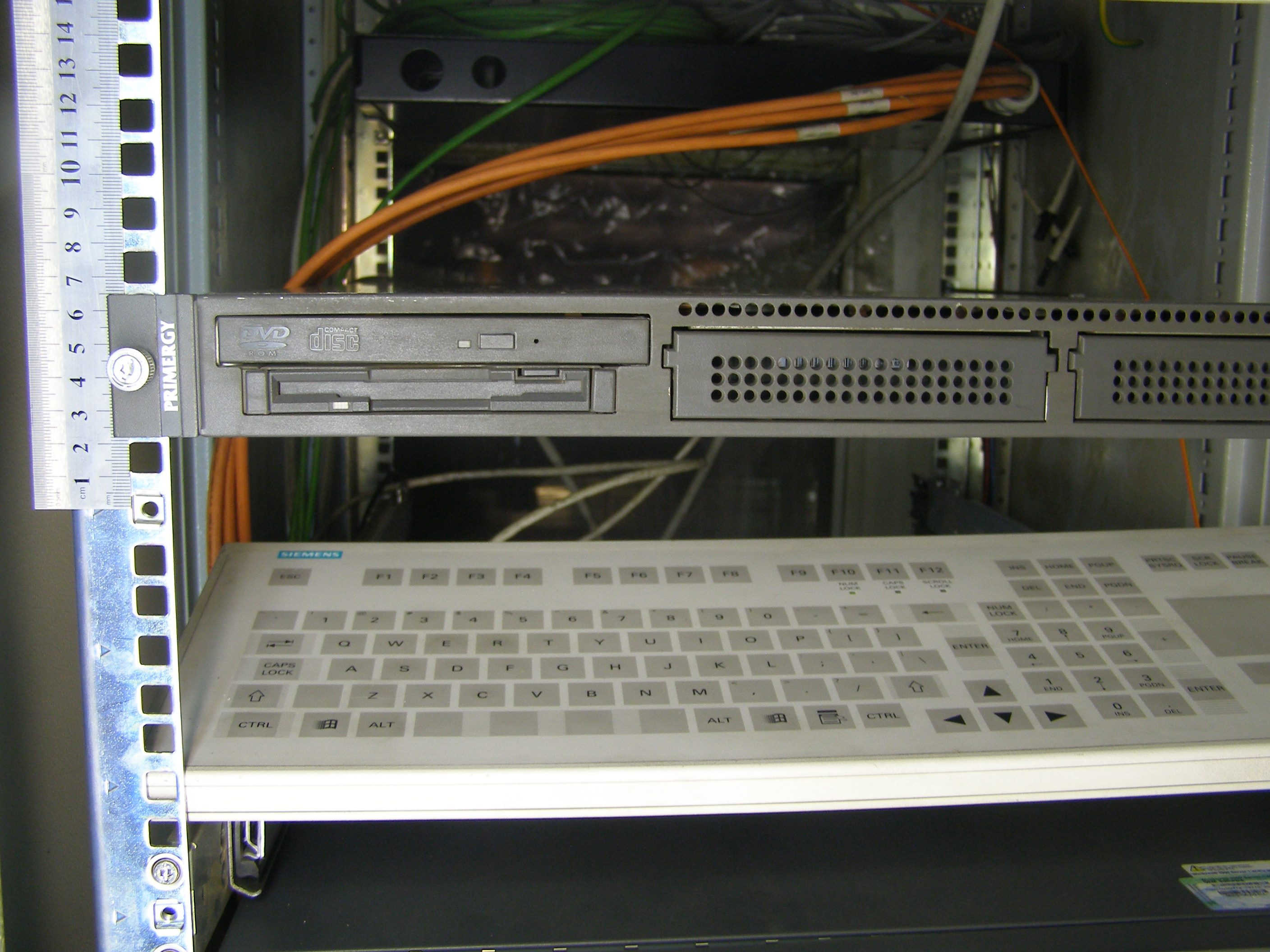 1U rackmount server - FSC Primergy RX100